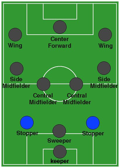 Position of Stopper